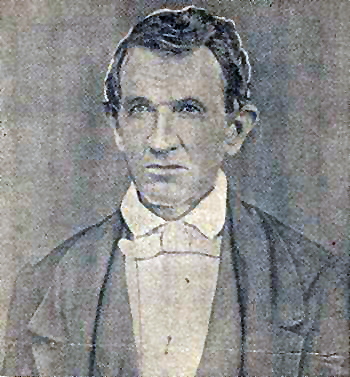 Tomlinson Fort, US Representative from Georgia